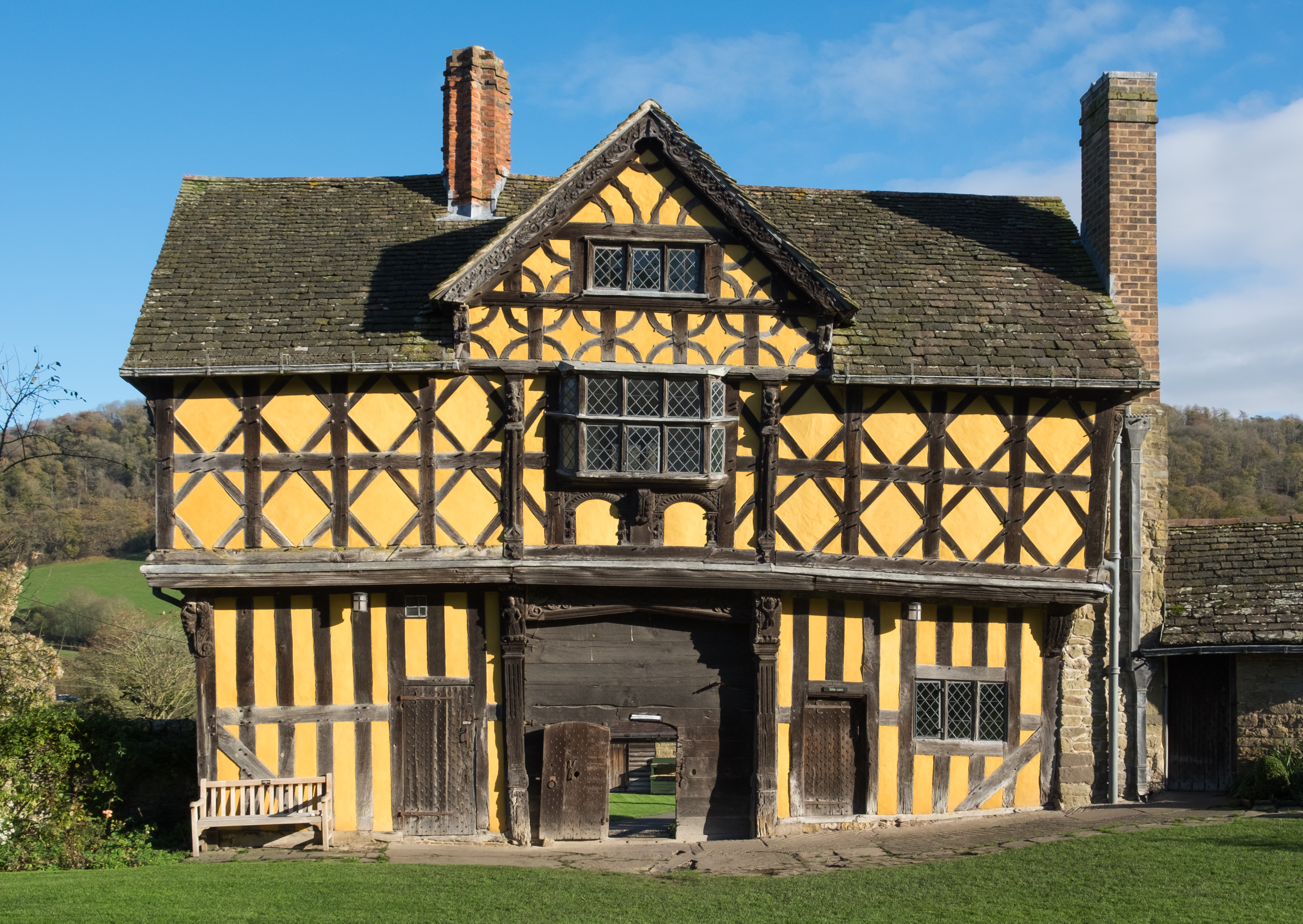 The gatehouse of Stokesay Castle, Shropshire, viewed from inside the castle courtyard. This 17th-century building is a grade 1 listed building in England.